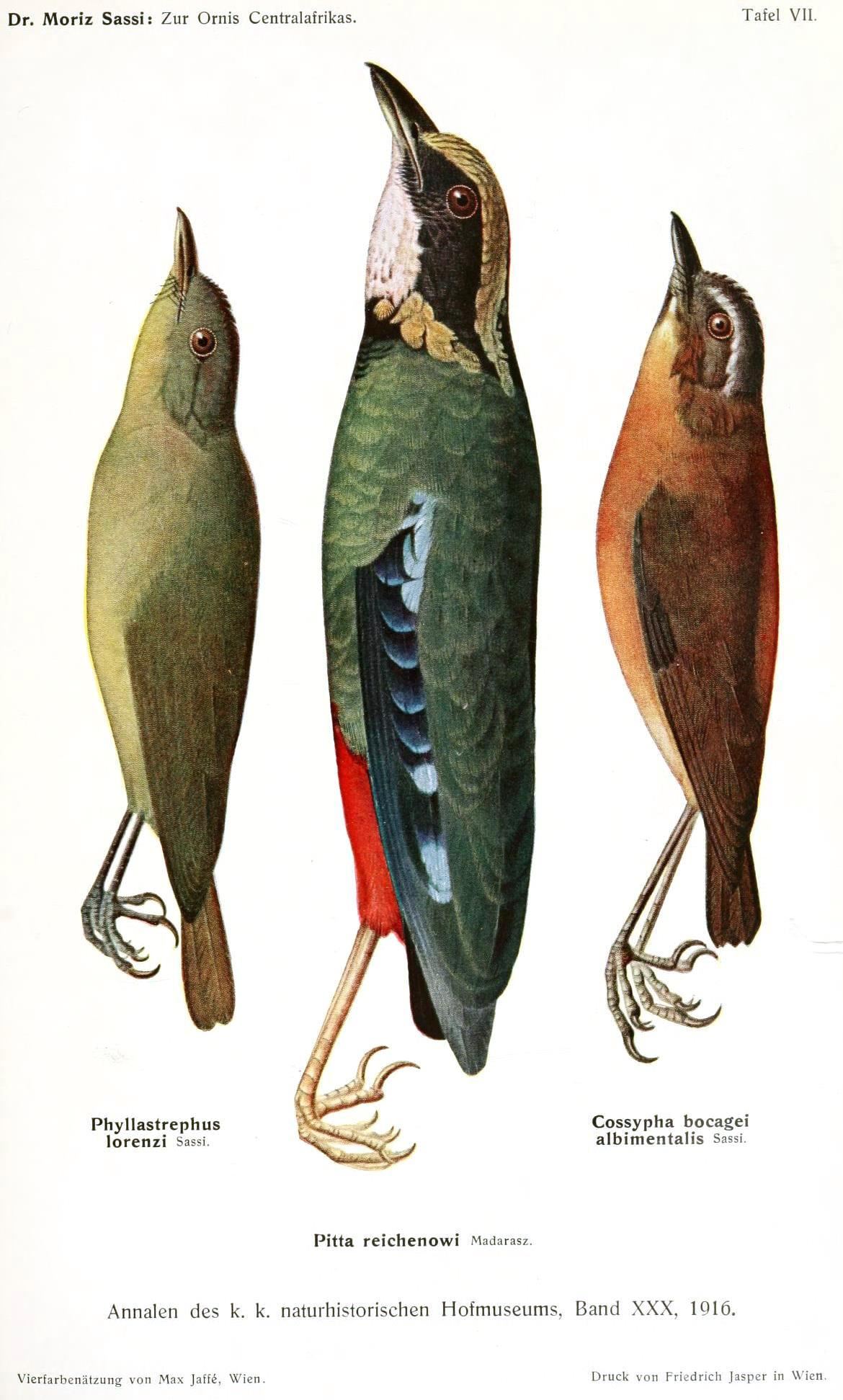 Three bird species from the African tropics illustrated in the Annals of the Vienna Natural History Museum (1916) left: Phyllastrephus lorenzi middle: Pitta reichenowi specimen from Beni-Mawambi, in Ituri Province, northeastern DRC right: Cossypha bocagei albimentalis Sassi = Cossypha archeri subsp. archeri — in the Vienna Natural History Museum Title: Annalen des Naturhistorischen Museums in Wien Year: 1916 (1910s) Authors: Naturhistorisches Museum (Austria) Subjects: Naturhistorisches Museum (Austria); Natural history Publisher: Wien, Naturhistorisches Museum [etc. ] Text Appearing Before Image: Dr. Moriz Sassi: Zur Ornis Centralafrikas. Tafel VII. Text Appearing After Image: Phyllastrephus lorenzi Sassi. Cossypha bocagei albimentalis Sassi. Pitta reichenowi Madarasz. Annalen des k. k. naturhistorischen Hofmuseums, Band XXX, 1916. Vierfarbenätzung von Max ]aili, Wien. Druck von Friedrich Jasper in Wien.